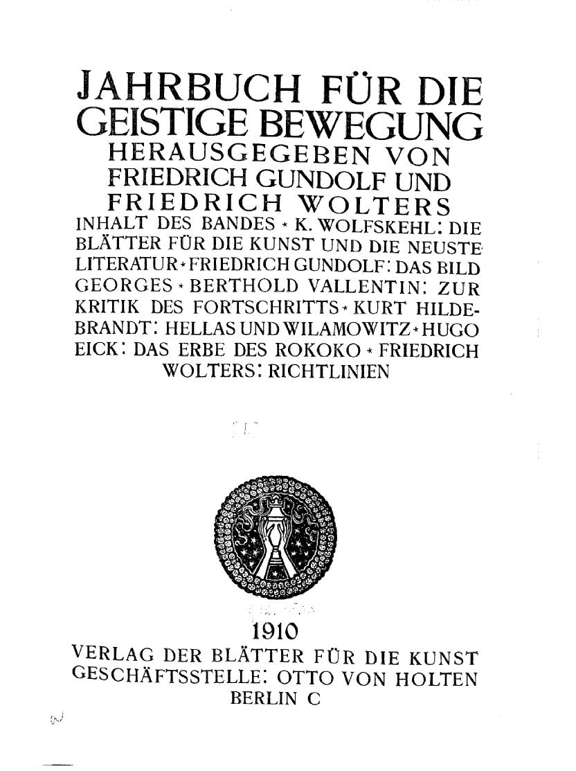 Title page of Jahrbuch für die geistige Bewegung, vol. 1, 1910